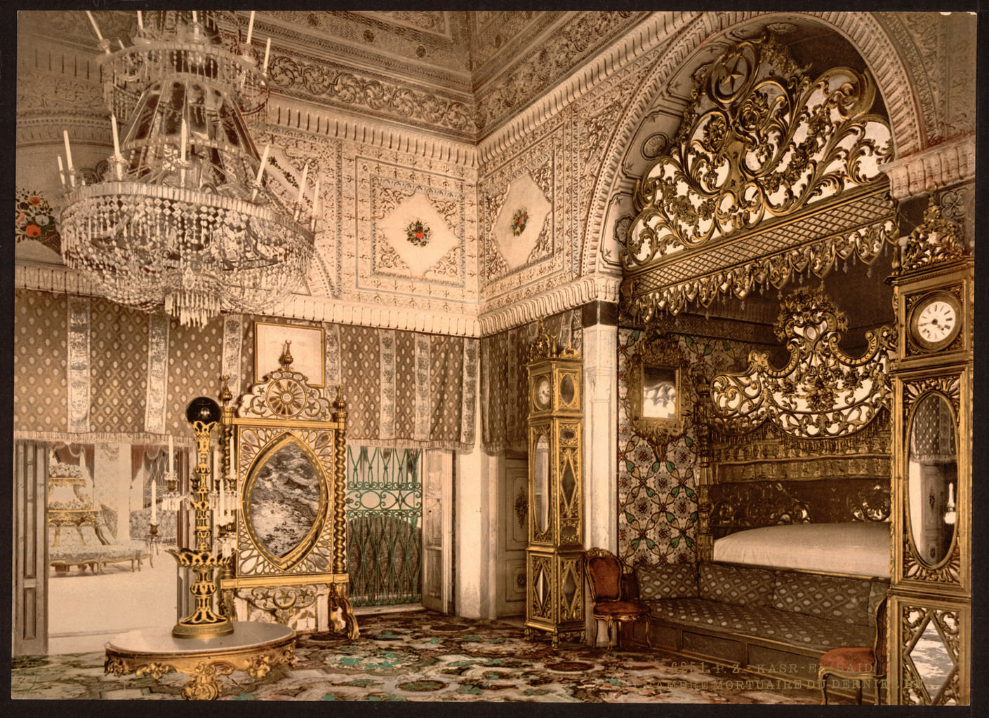 This photochrome print, from circa 1899, is part of “Views of Architecture and People in Tunisia” from the catalog of the Detroit Photographic Company. It shows the chamber of the bey of Tunis in the Kassar-Said Palace in Tunis. Baedeker’s The Mediterranean: Handbook for Travelers (1911) described the palace as “a château of the bey” to which admittance by tourists was not allowed. Muhammad III as-Sadiq (1813–82) ruled Tunisia from September 1859 until his death in October 1882. He was succeeded by Ali Muddat ibn al-Husayn (1817–1902), who ruled from 1882 until his death in June 1902. The Detroit Photographic Company was launched as a photographic publishing firm in the late 1890s by Detroit businessman and publisher William A. Livingstone, Jr. and photographer and photo-publisher Edwin H. Husher. They obtained the exclusive rights to use the Swiss "Photochrom" process for converting black-and-white photographs into color images and printing them by photolithography. This innovative process was applied to the mass production of color postcards, prints, and albums for sale to the American market. The firm became the Detroit Publishing Company in 1905. Bedrooms; Interiors